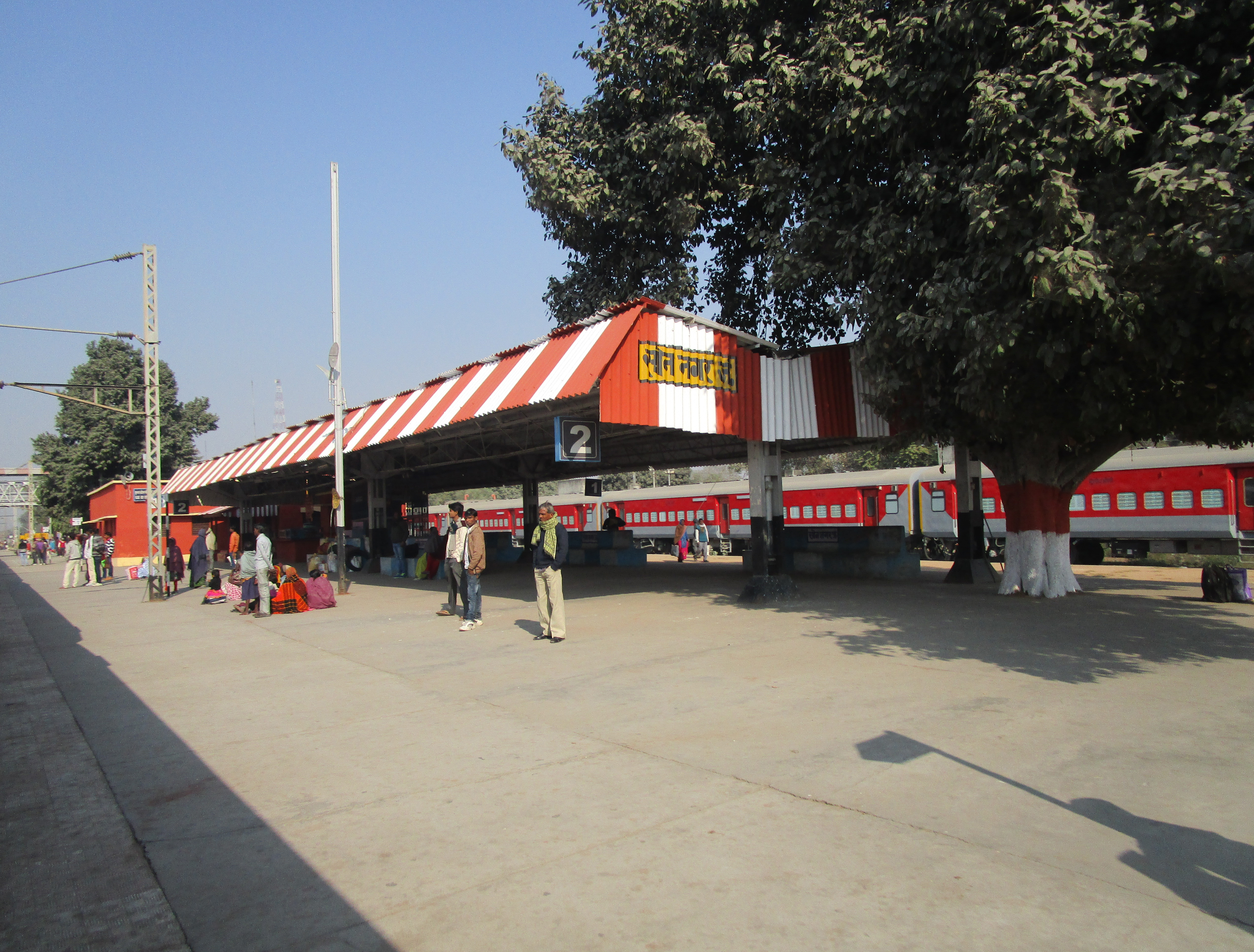 Son Nagar railway station platform no. 2